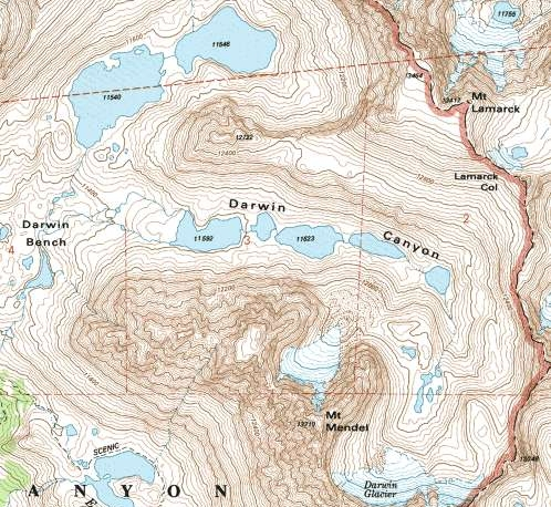 USGS Topographic Map, Mount Darwin, CA 1:24,000